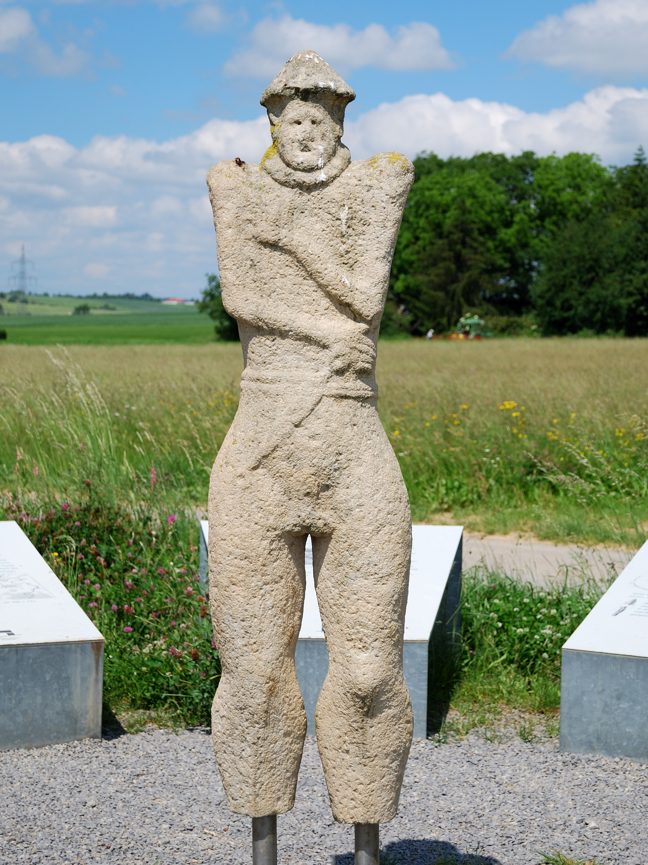 The Warrior of Hirschlanden, the oldest known life-size anthropomorphic statue north of the Alps. A copy of the statue at the findspot.